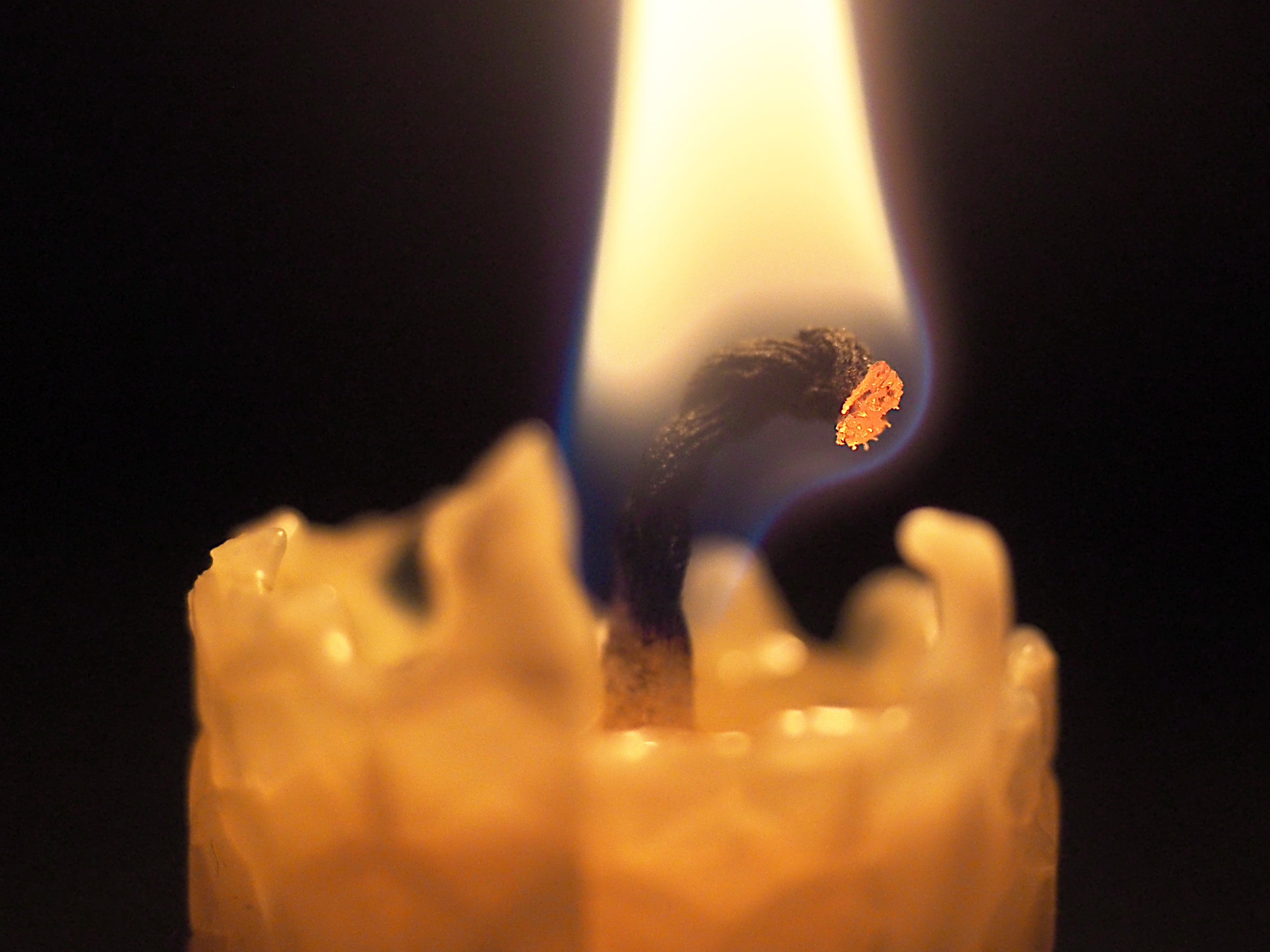 Closeup photograph of a bee wax candle burning with glowing wick